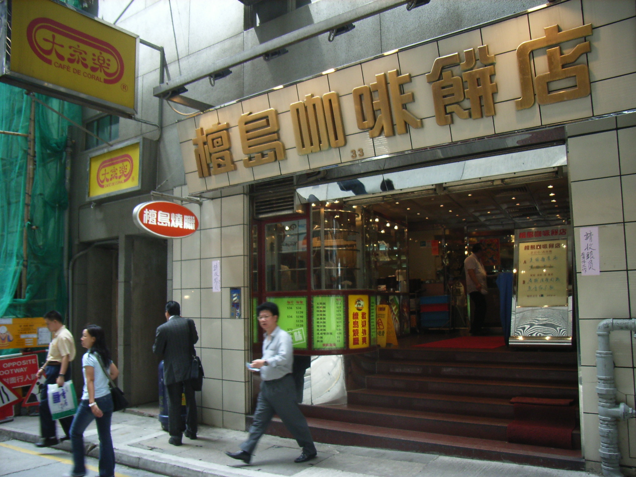 檀島咖啡餅店, Stanley Street 史丹利街, Central, Hong Kong by TangHon